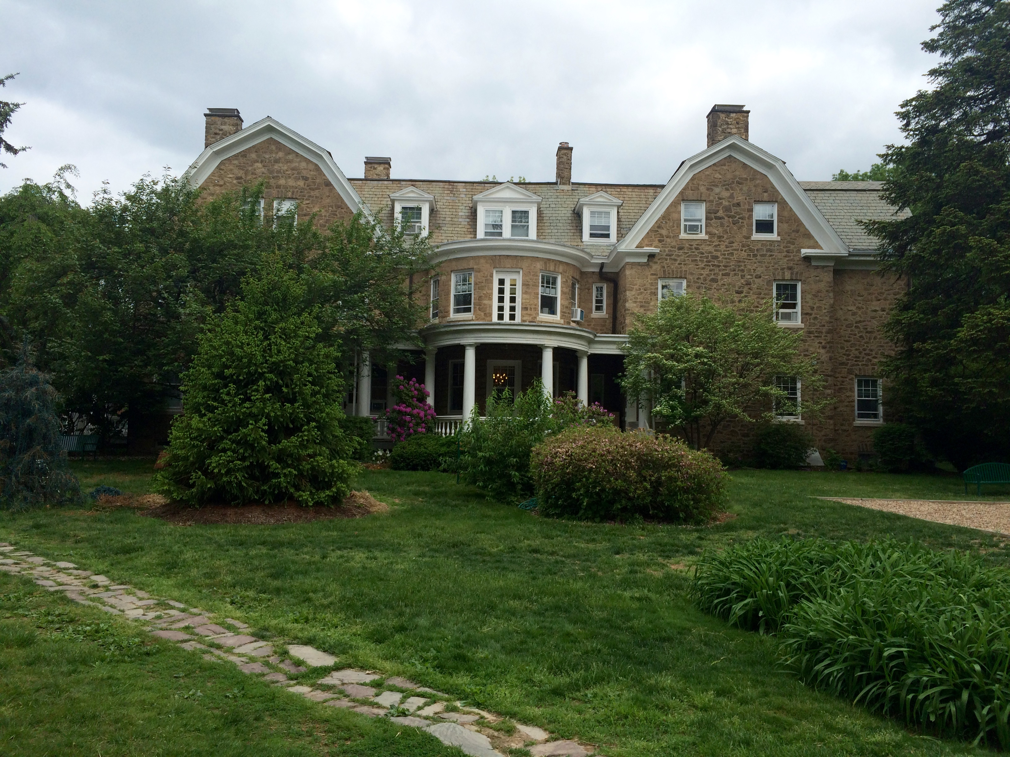 The south facade of the Lewis School in Princeton, New Jersey. It was built in 1902 as Thanet Lodge, also known as Greenholm or William Libbey’s house. It was home to Miss Mason’s School from the 1930s until 1982.